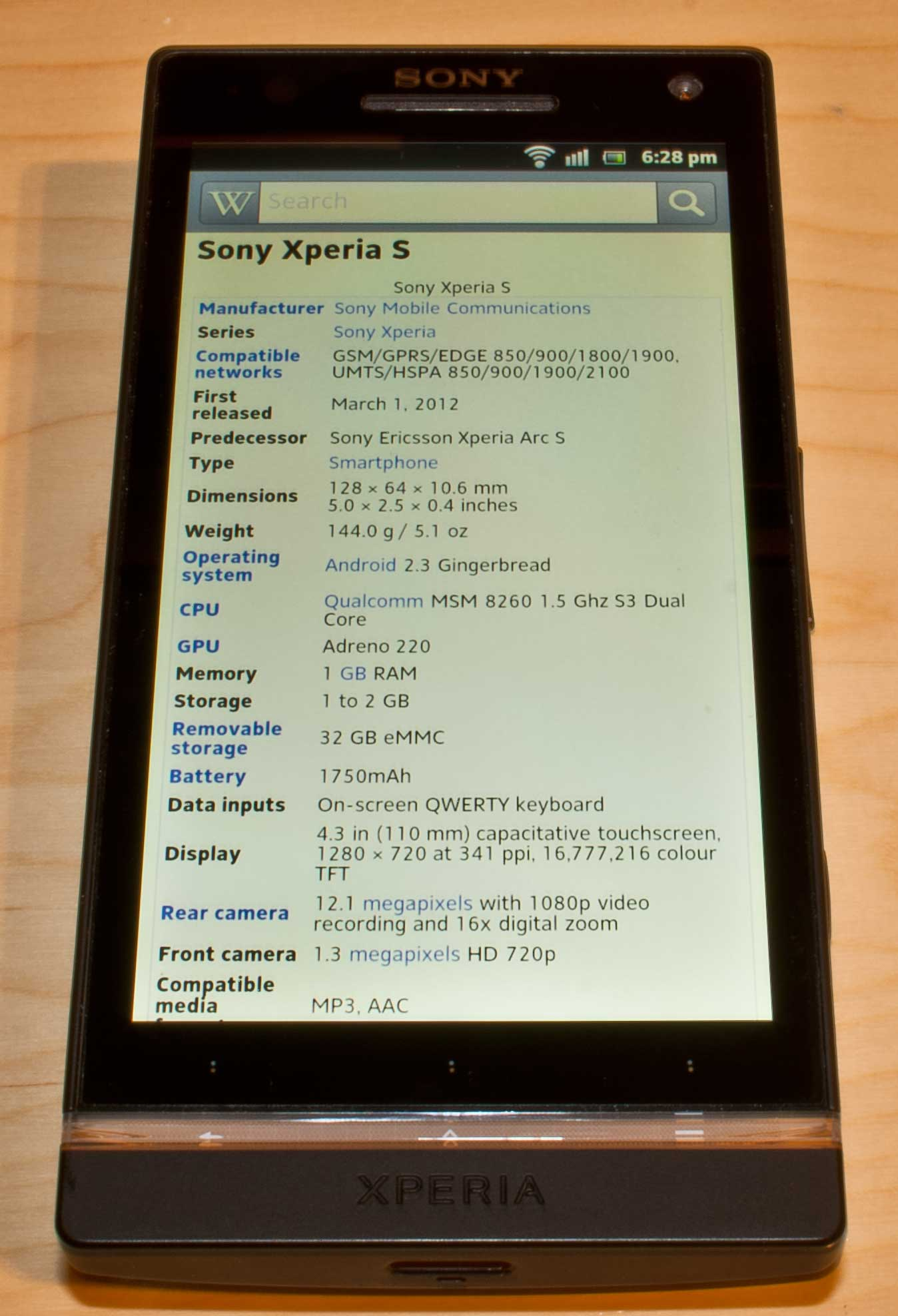 Breif shot of the the front of the 2012 smartphone, the Sony Xperia S